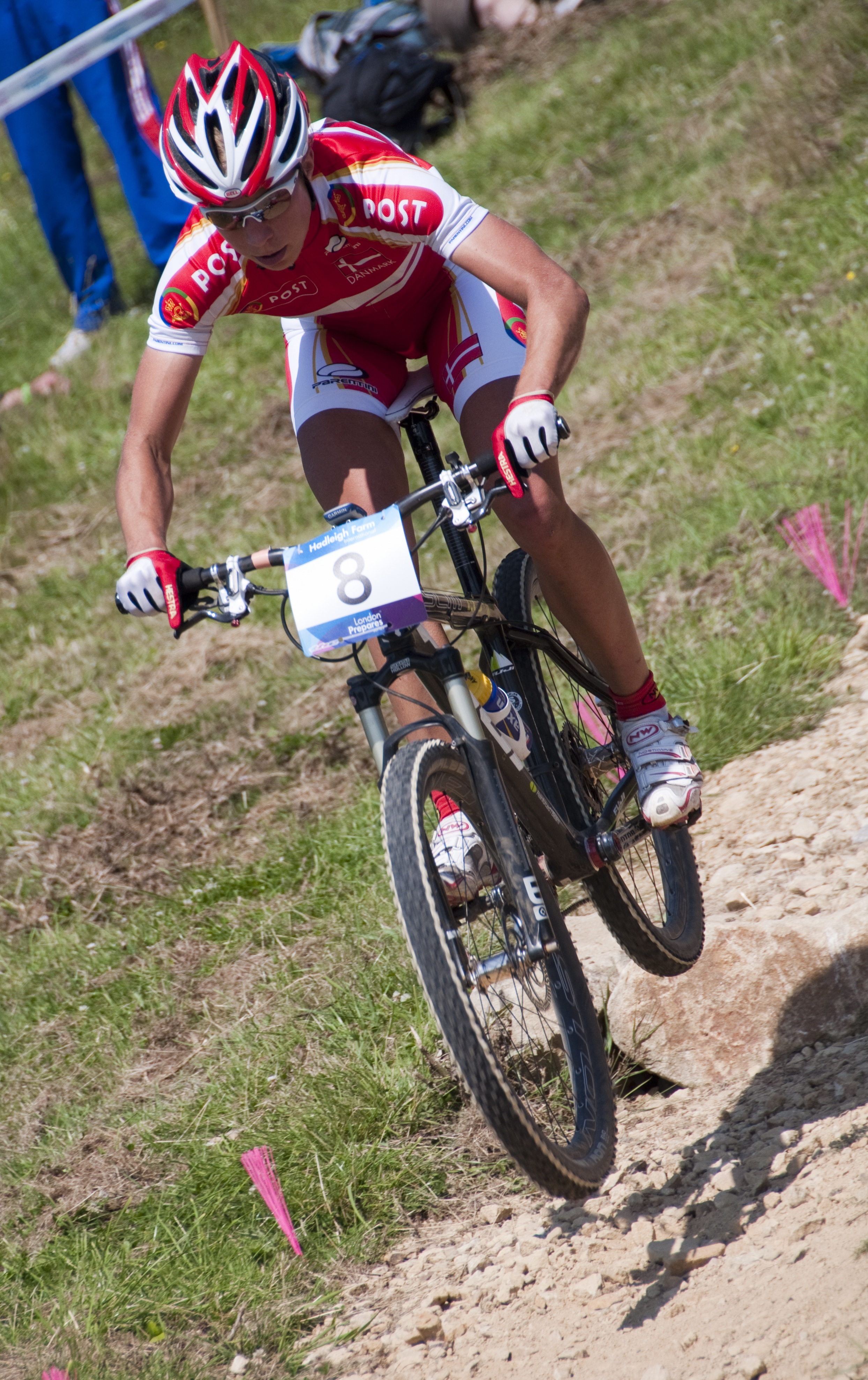 Langvad on the 2012 course